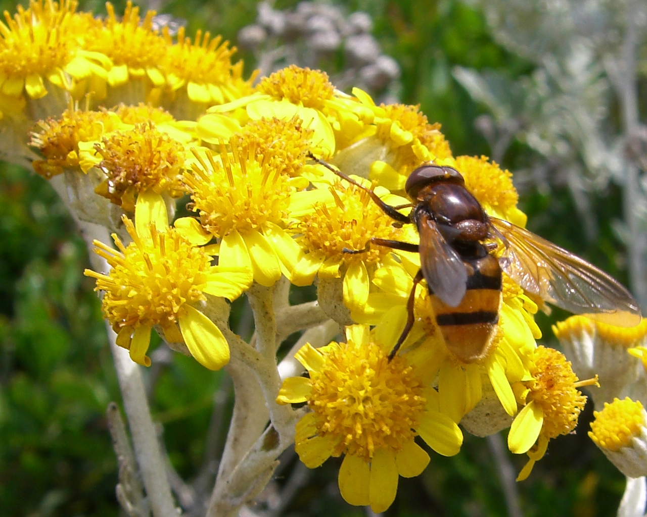 Fly on flower, Port Cros national park, FranceThis is Senecio cineraria